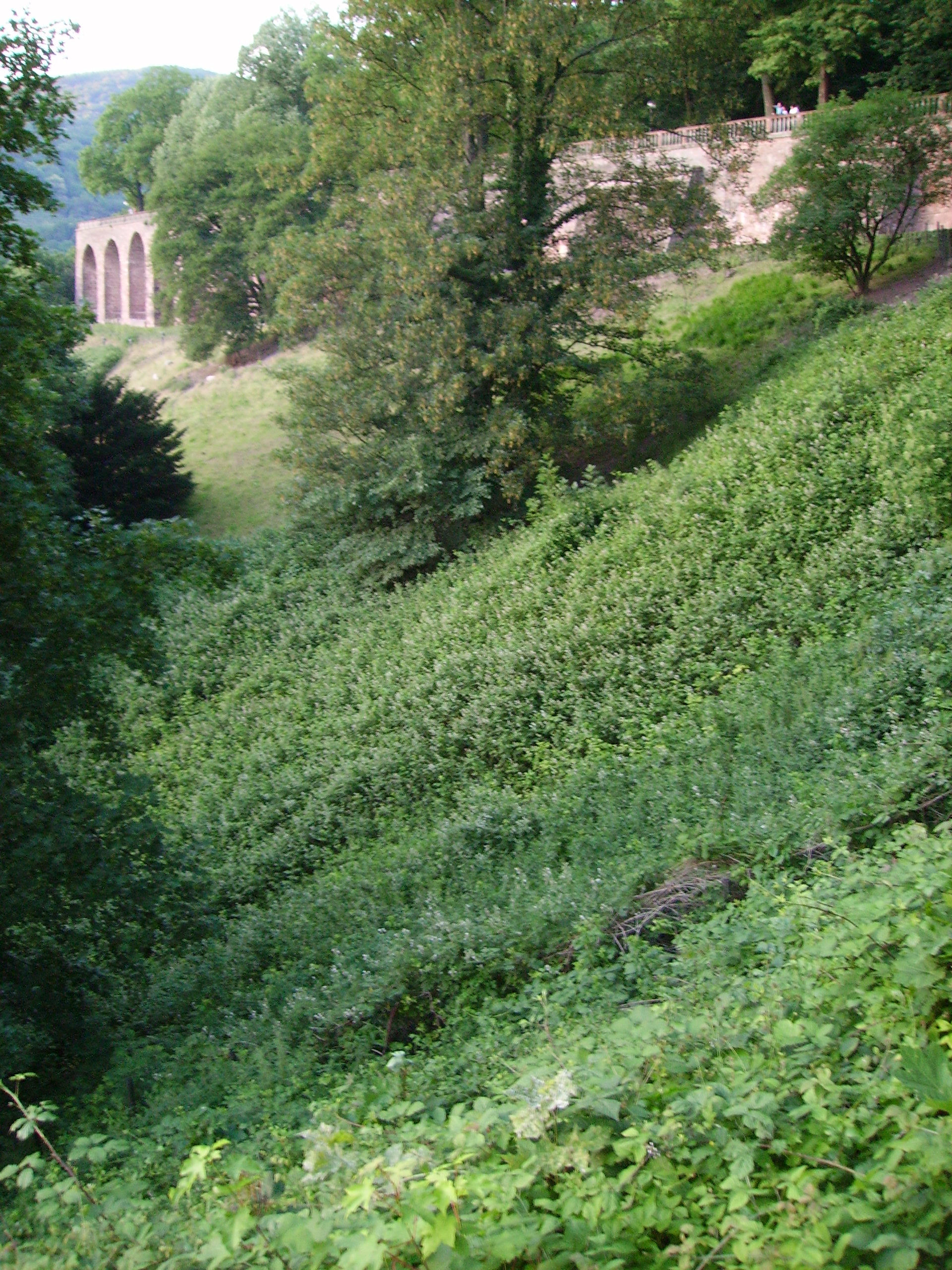 part of Heidelberg castle (Heidelberger Schloss)